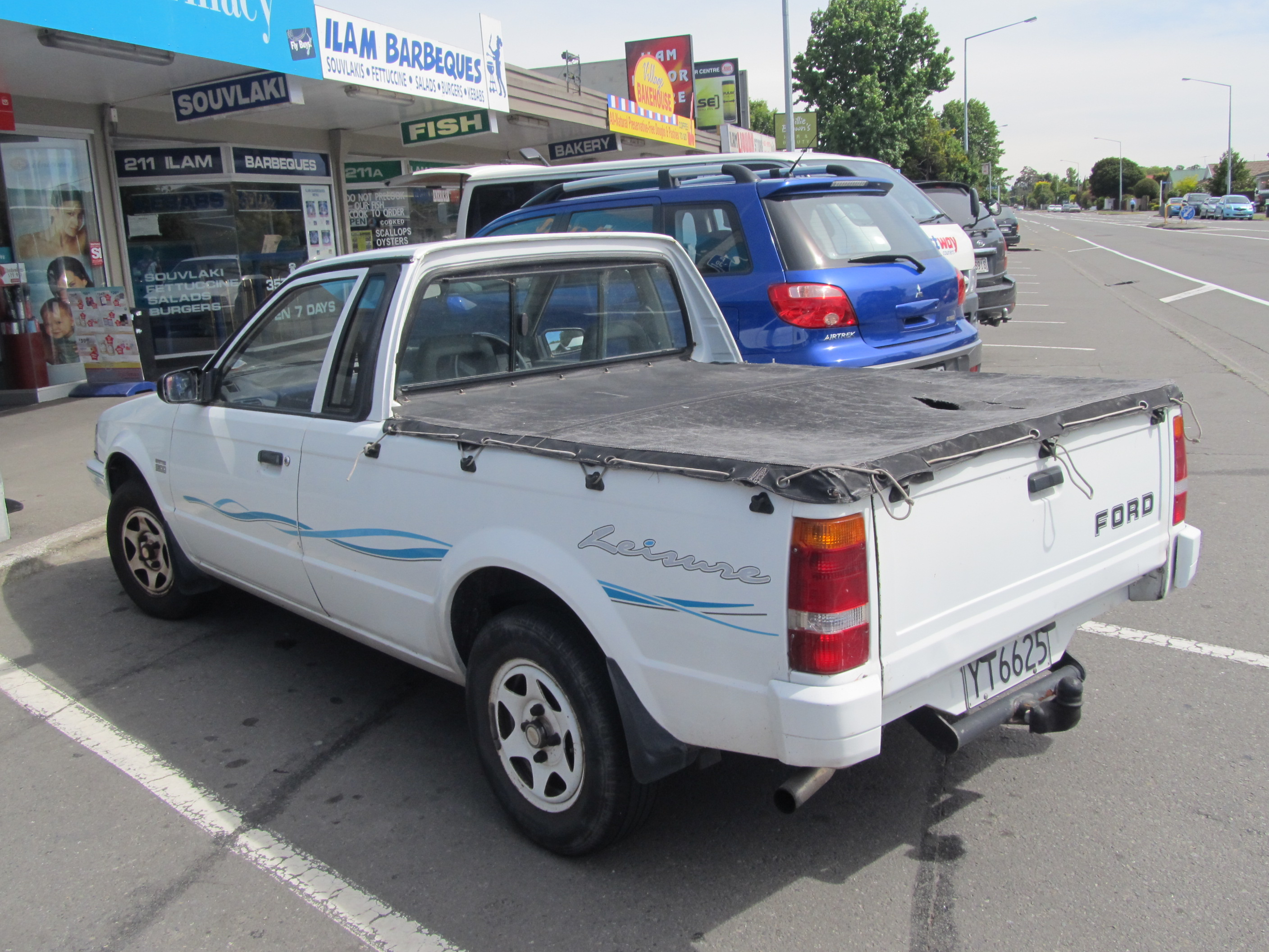 1996 Ford Bantam 1600 Leisure utility (South African specification), photographed in New Zealand. YI6625, according to Carjam this one was imported from South Africa in 1999.